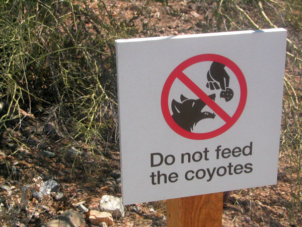 A sign at the Arizona-Sonora Desert Museum advises guests not to feed wild coyotes.No Feeding